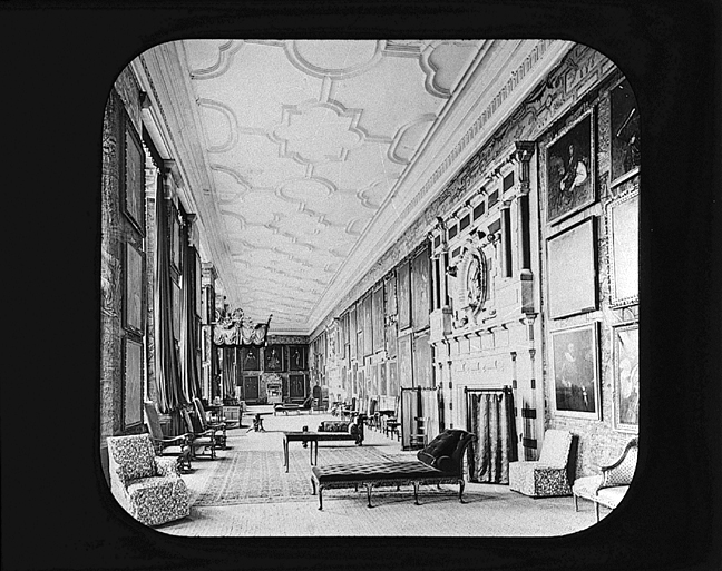 The long gallery at Welbeck Abbey in Nottinghamshire, England by George Washington Wilson (died 1893).